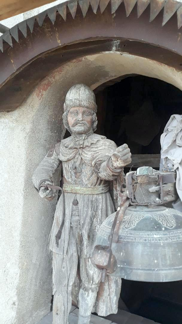 Wooden statue in the tower of the lutheran church in Saschiz, Mureș County, Romania